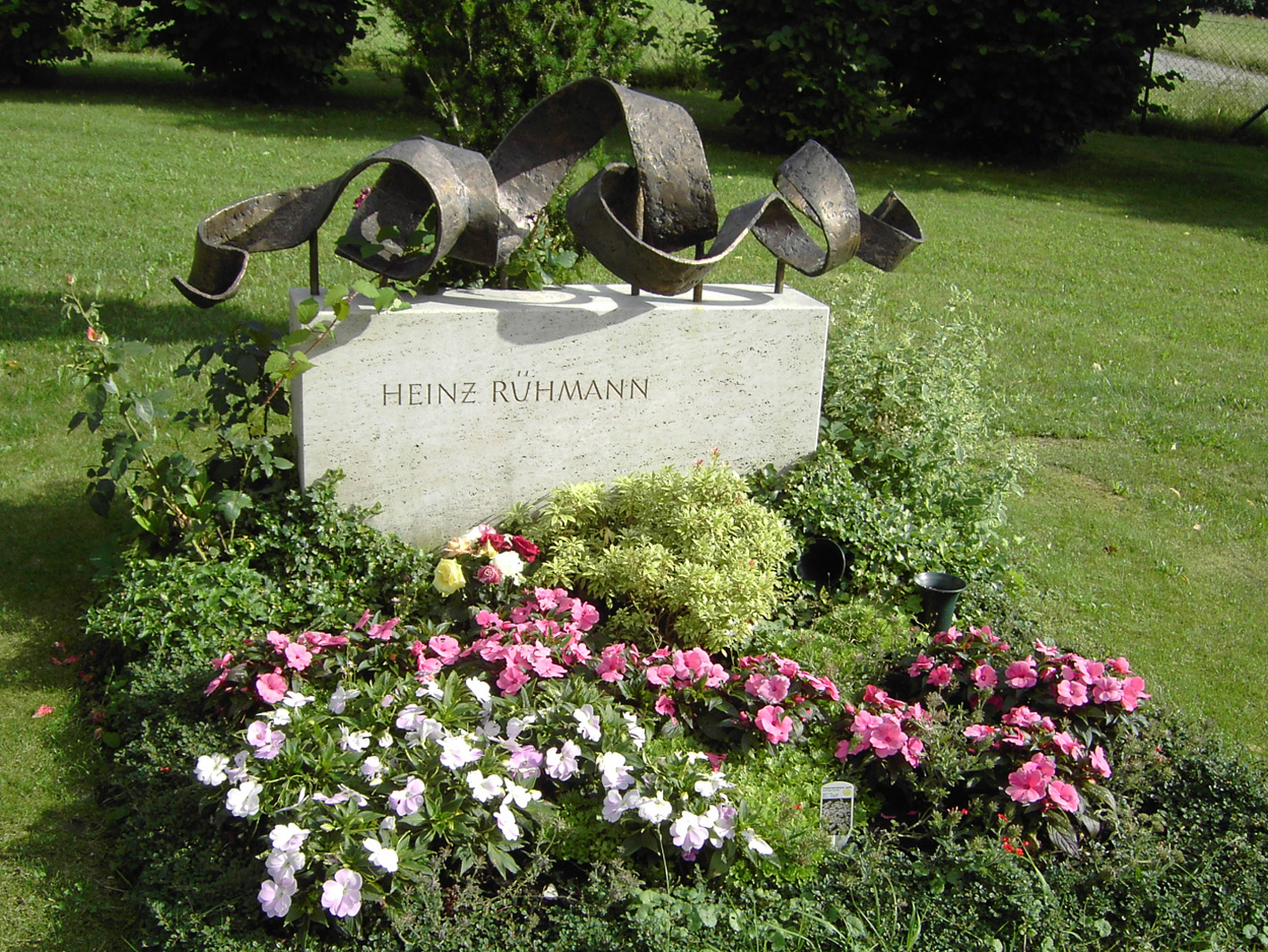 Heinz Rühmann, famous German actor, is buried in Aufkirchen, Upper Bavaria